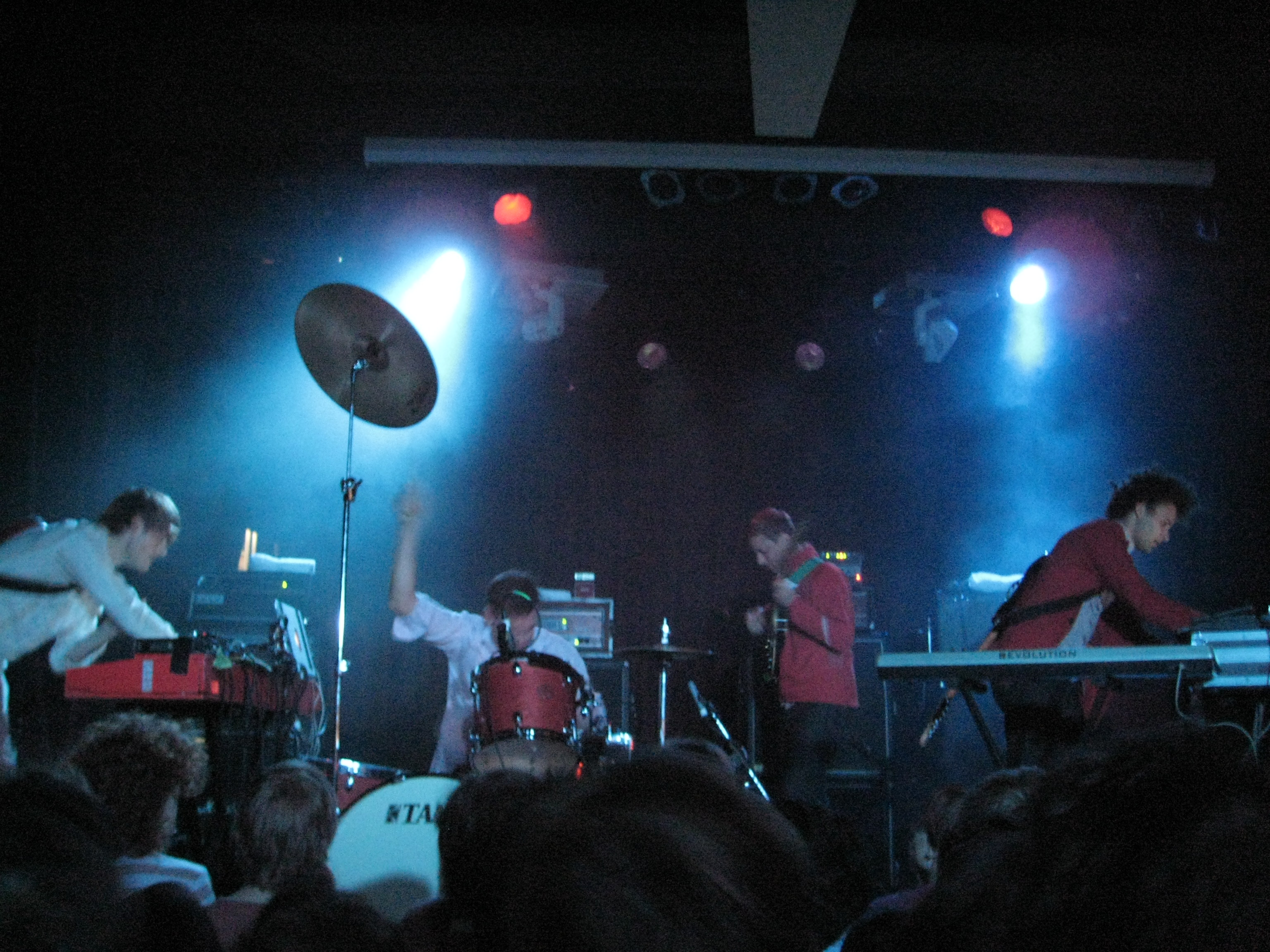 Battles at the Gaelic Theatre in Sydney. (Original text: Photo by myself, Oliver Ryan. Gaelic Theatre, Sydney, 26th September, 2007.